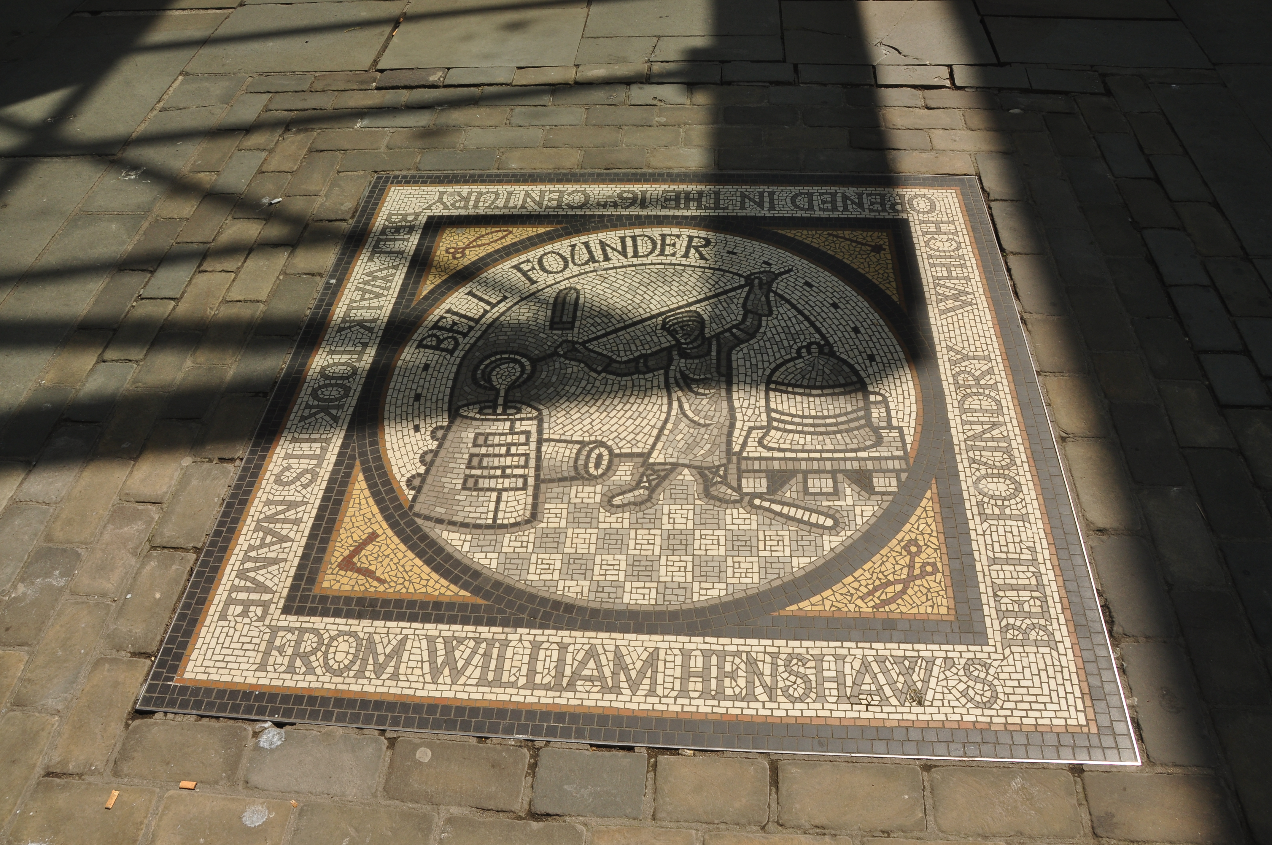 Bellfounder mosaic in Gloucester, England